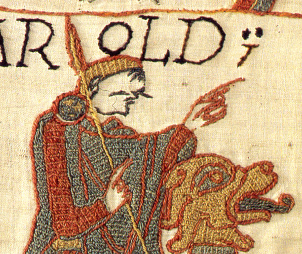 fragment of the bayeux tapestry showing harold as he comes to normandy to inform william he is the sucesor of king eduard.